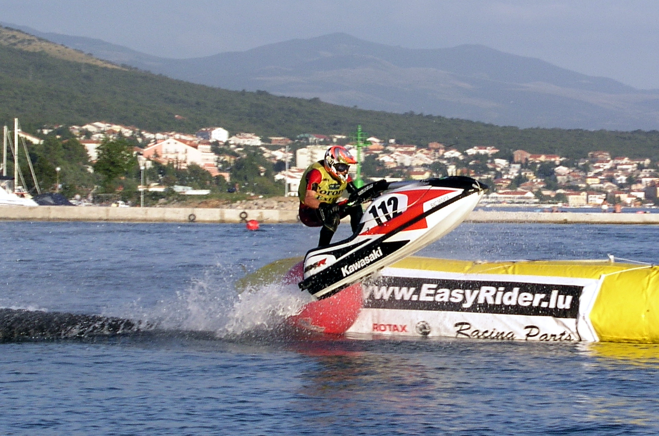 European Jet Ski Championship, Crikvenica, Croatia